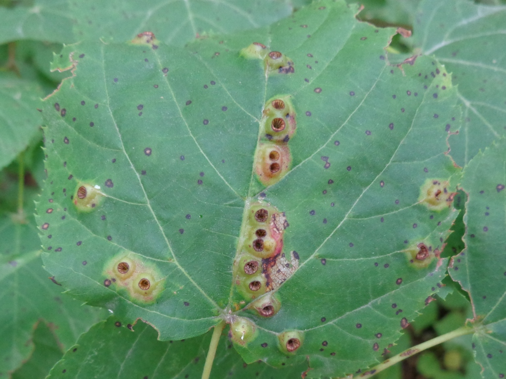 Didymomyia tiliacea. Found in Bērzi village near Bauska city, Latvia